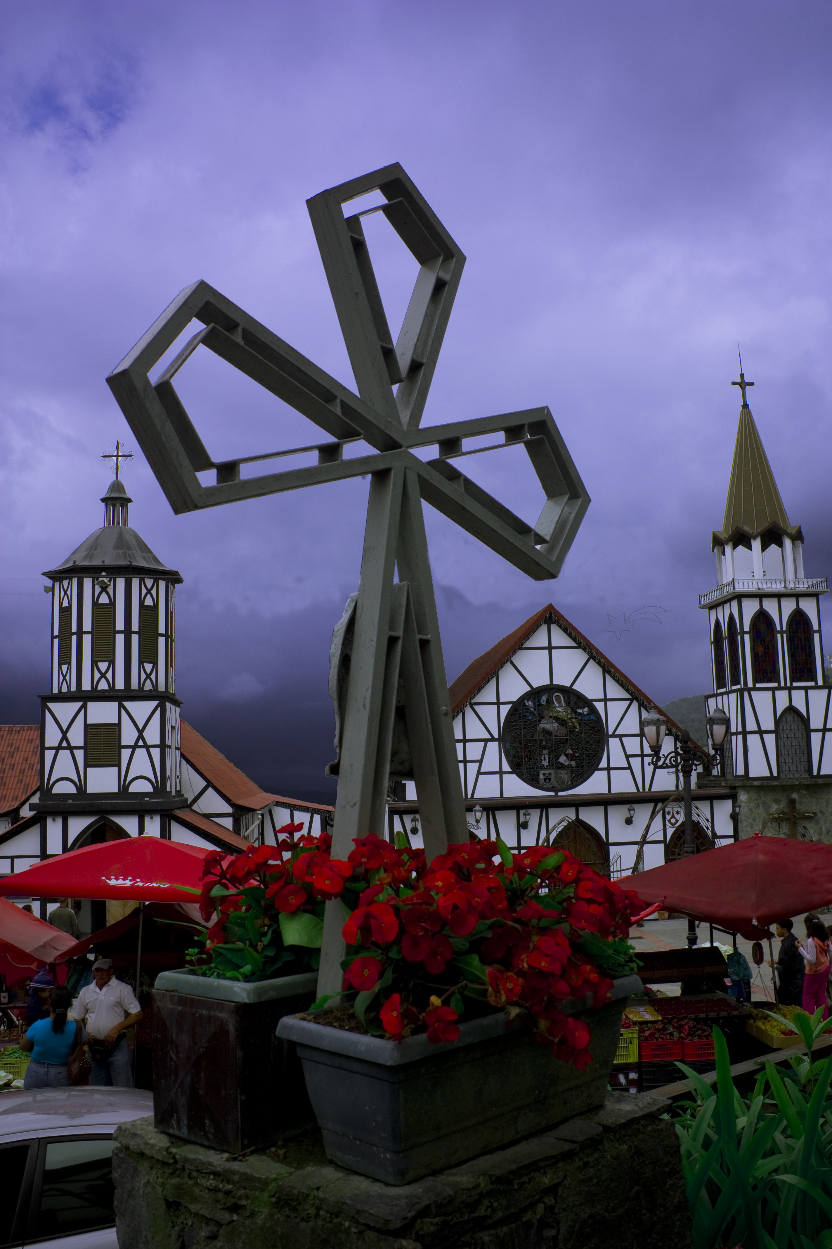 This pricture was takken in La colonia Tovar in Aragua State.